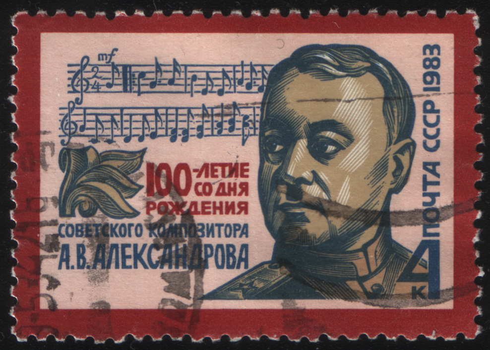 Stamp of USSR, 100th Birth Anniversary of A. V. Alexandrov, 1983